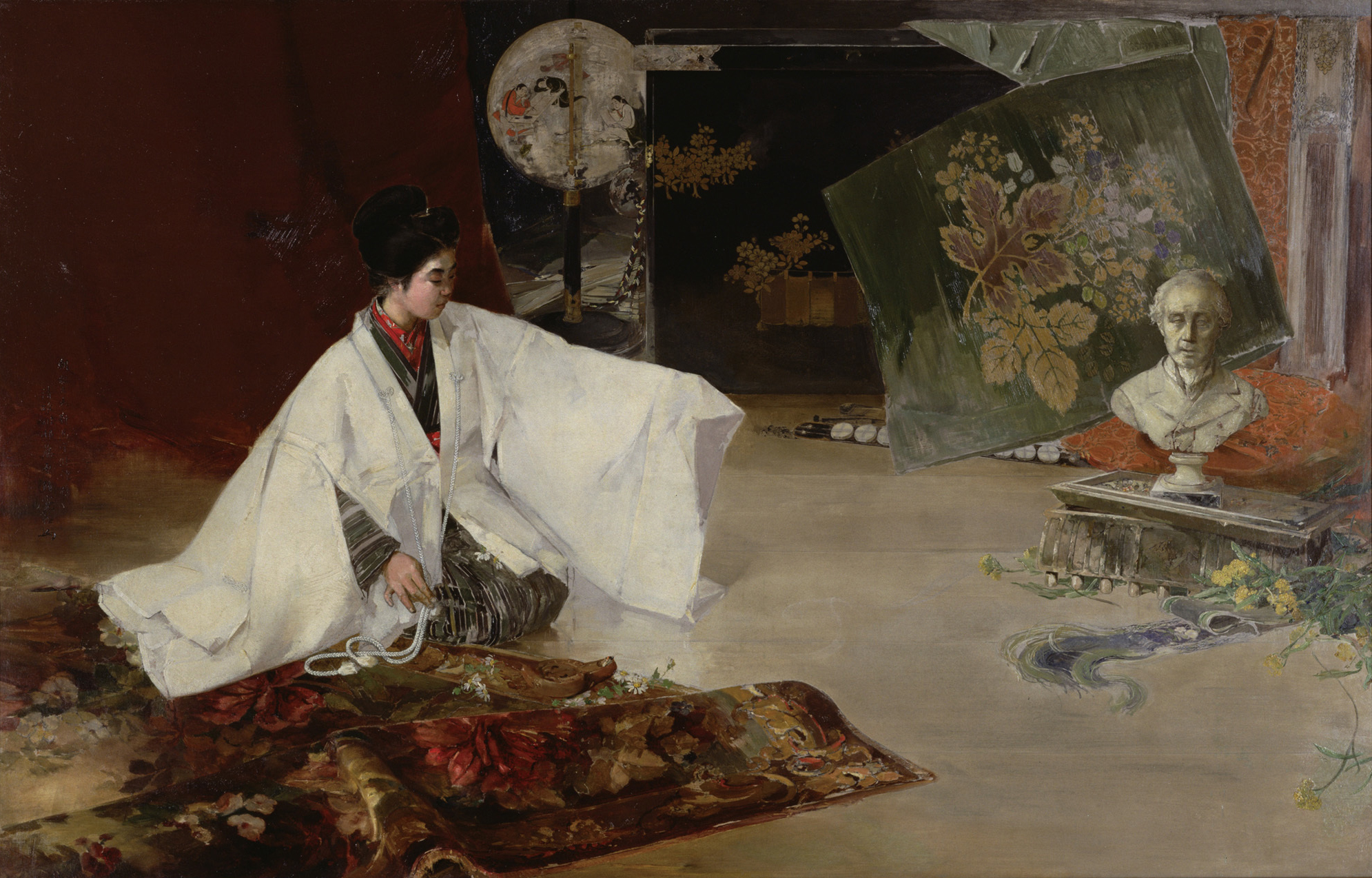 Summer Airing, by Kawamura Kiyoo, Tokyo National Museum, Japan